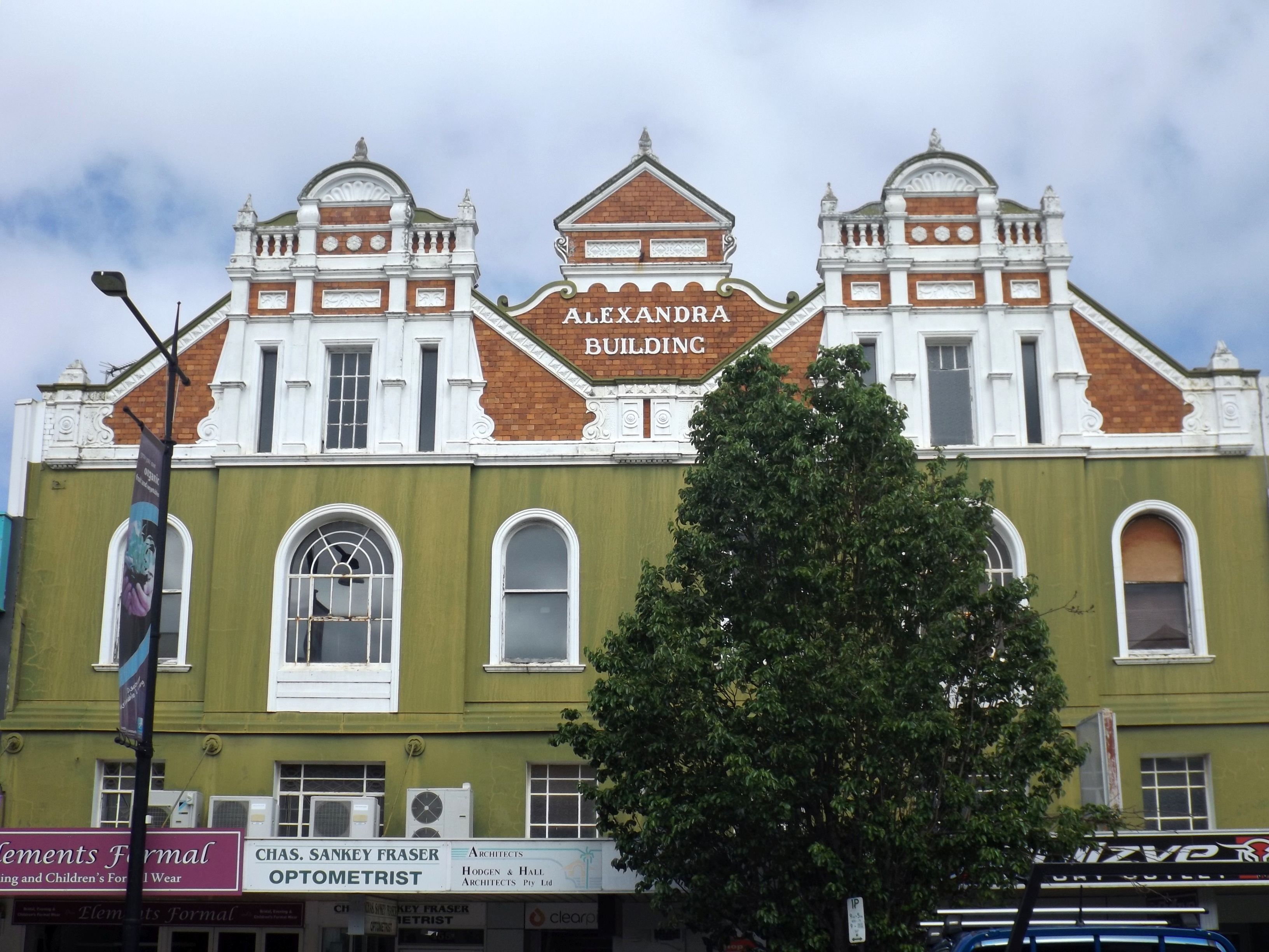 Photo of the Alexandra Building in Toowoomba City, Queensland, Australia.